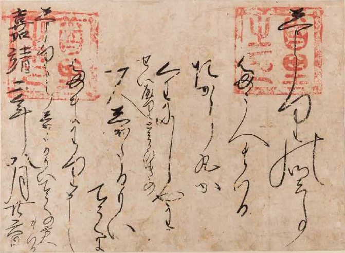 From the Dana Family Documents, kept at the Okinawa Prefectural Museum and Art Museum, Naha, Okinawa, Japan